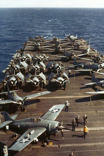 Grumman F4F-4 Wildcat of Fighting Squadron 71 (VF-71) and Douglas SBD-3 Dauntless aboard the U.S. Navy aircraft carrier USS Wasp (CV-7), in 1942.